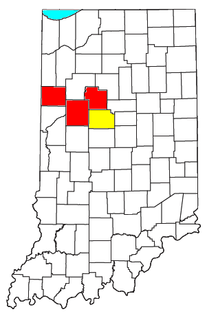 Locator map of the Lafayette-Frankfort Combined Statistical Area in the northwestern part of the U.S. state of Indiana. The two components of the CSA are colored separately: Lafayette Metropolitan Statistical Area: red Frankfort Micropolitan Statistical Area: yellow